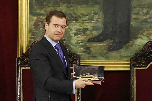 MADRID. Dmitry Medvedev received the Golden Key to Madrid from the mayor of the Spanish capital.